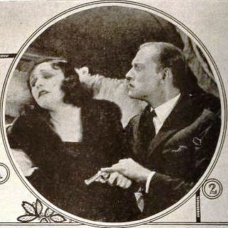 Still cropped for publication from the American film Bella Donna (1923) with Pola Negri, on page 190 of the December 23, 1922 Exhibitor's Trade Review.